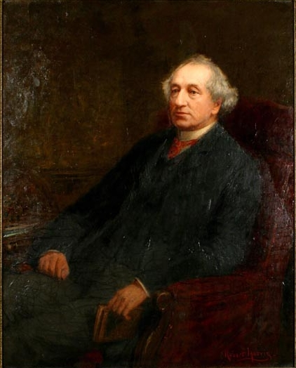 Sir John A Macdonald was quoted as saying "Paint me, warts and everything".